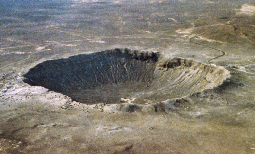 Barringer Meteor Crater in Arizona.